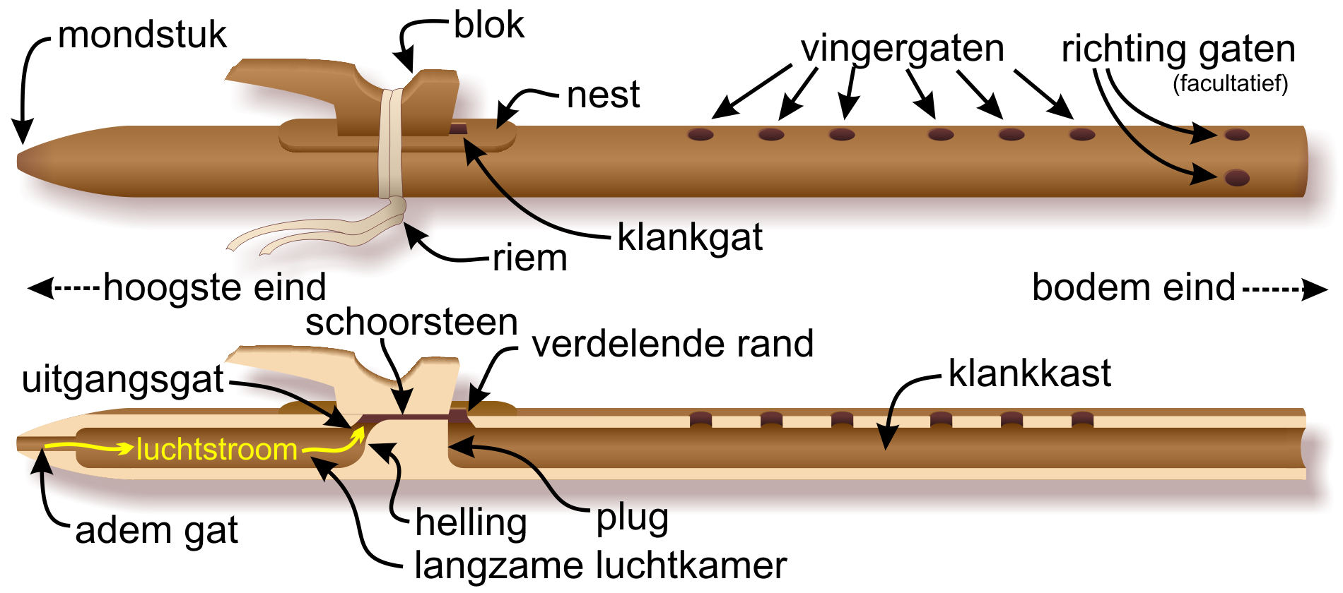 Composite image of the outside and inside of a Native American flute, with Dutch-language labels.